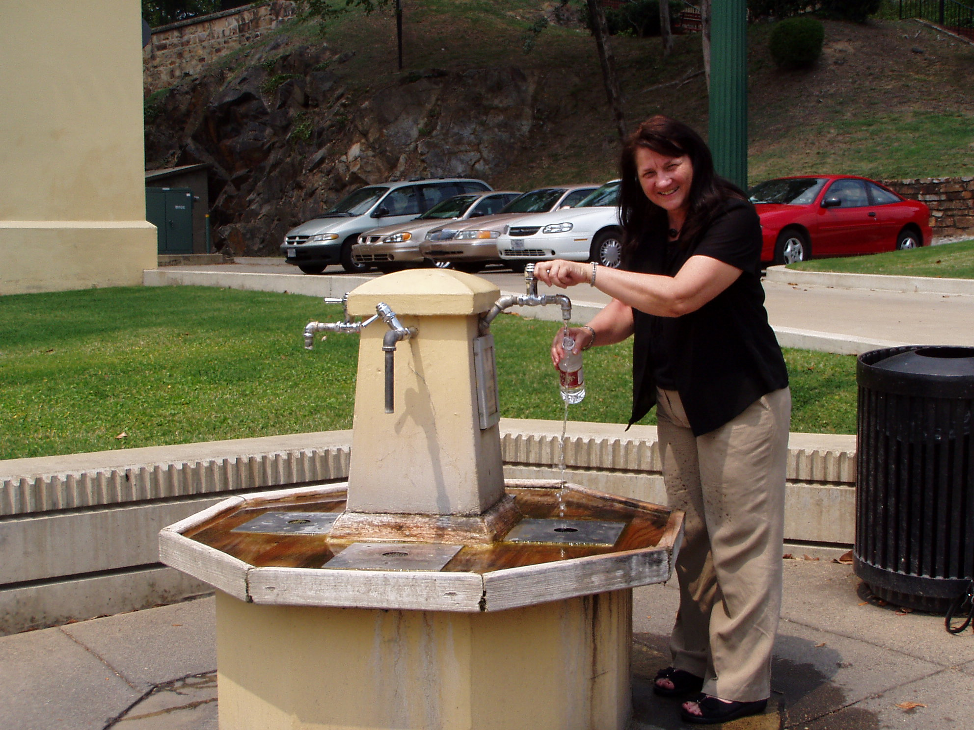 Hot Springs fountain, Hot Springs National Park.